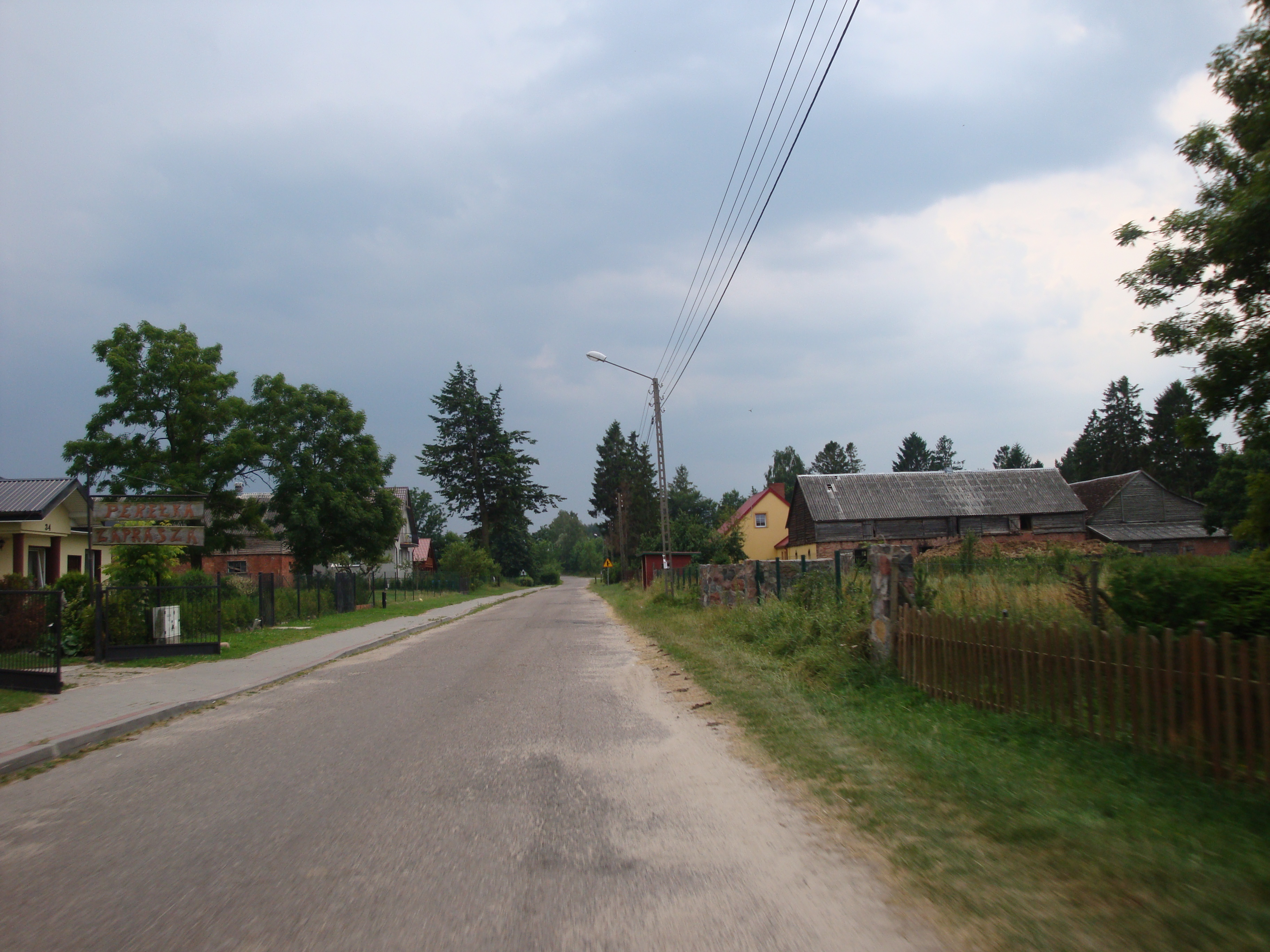 Słajszewo-village in Gmina Choczewo, Poland.